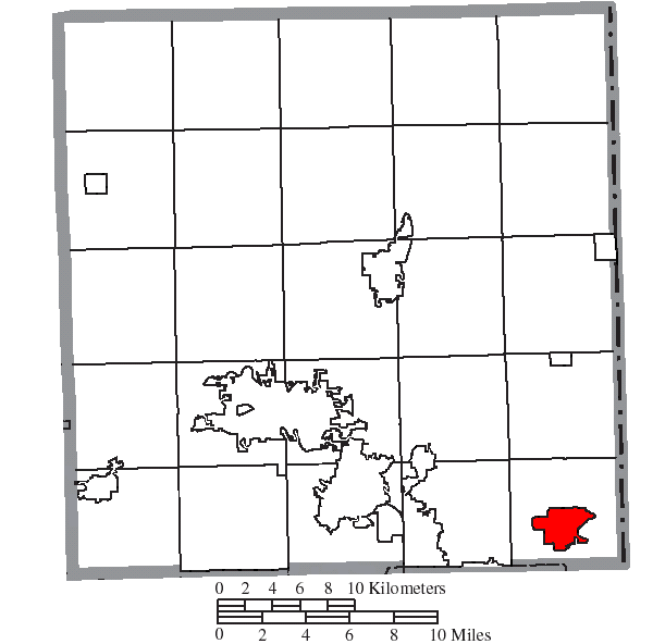 Map of the municipal and township boundaries of Trumbull County, Ohio, United States, as of the 2000 census, with the location of the city of Hubbard highlighted. Township borders are shown only in unincorporated areas in order to differentiate incorporated and unincorporated areas more clearly.